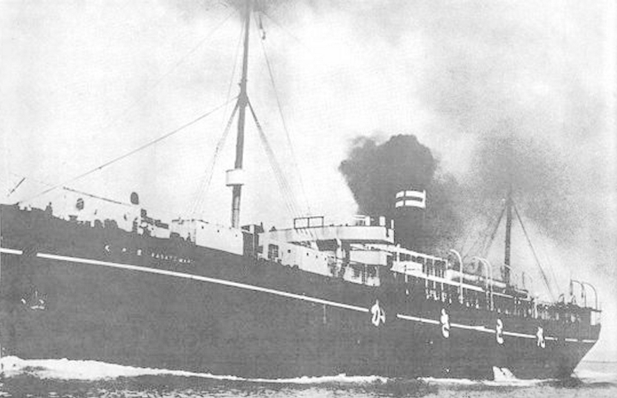 Kasato Maru, the ship that transported the first Japanese immigrants to Japan.